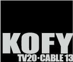 This is a logo for KOFY-TV.